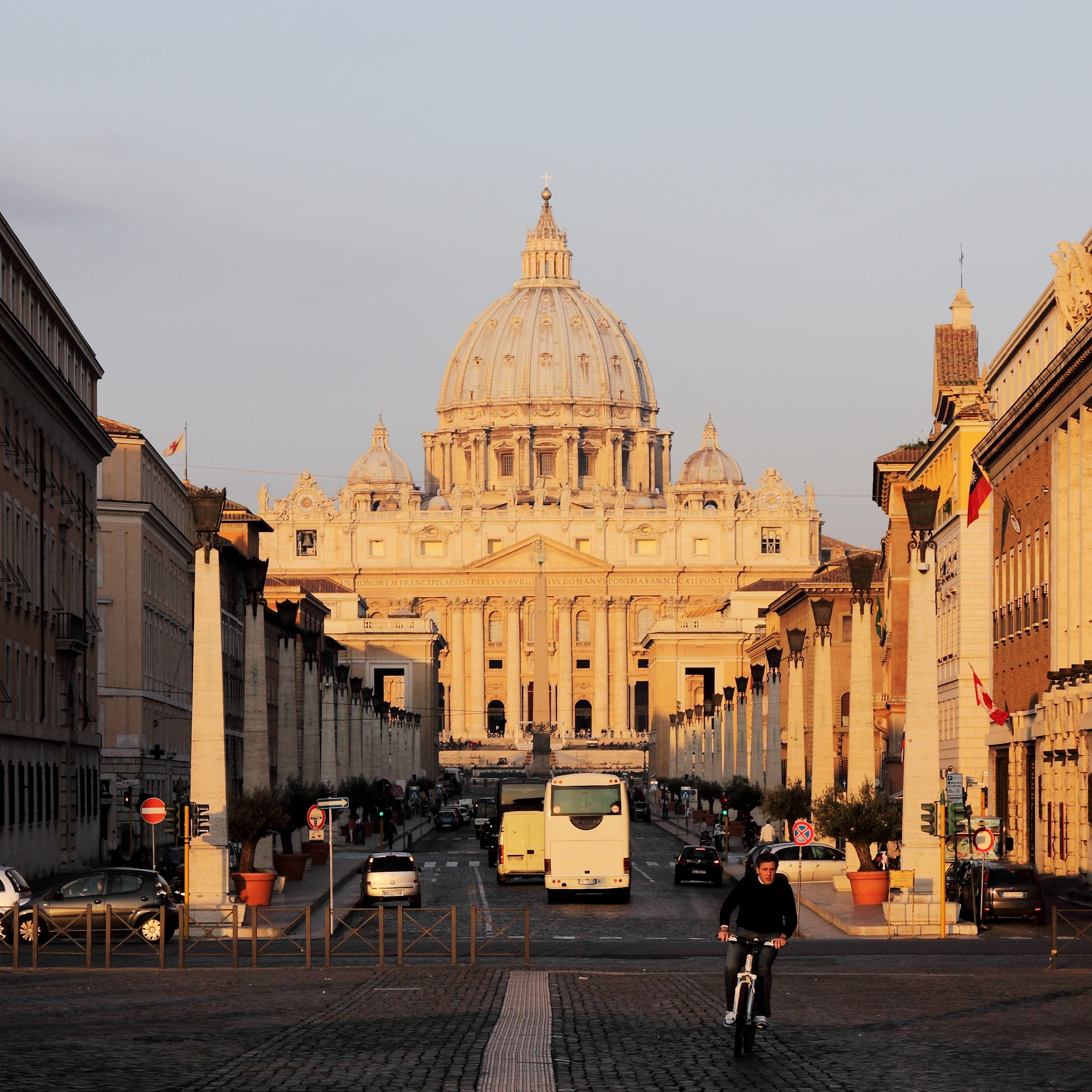 Via della Conciliazione, Saint Peter's